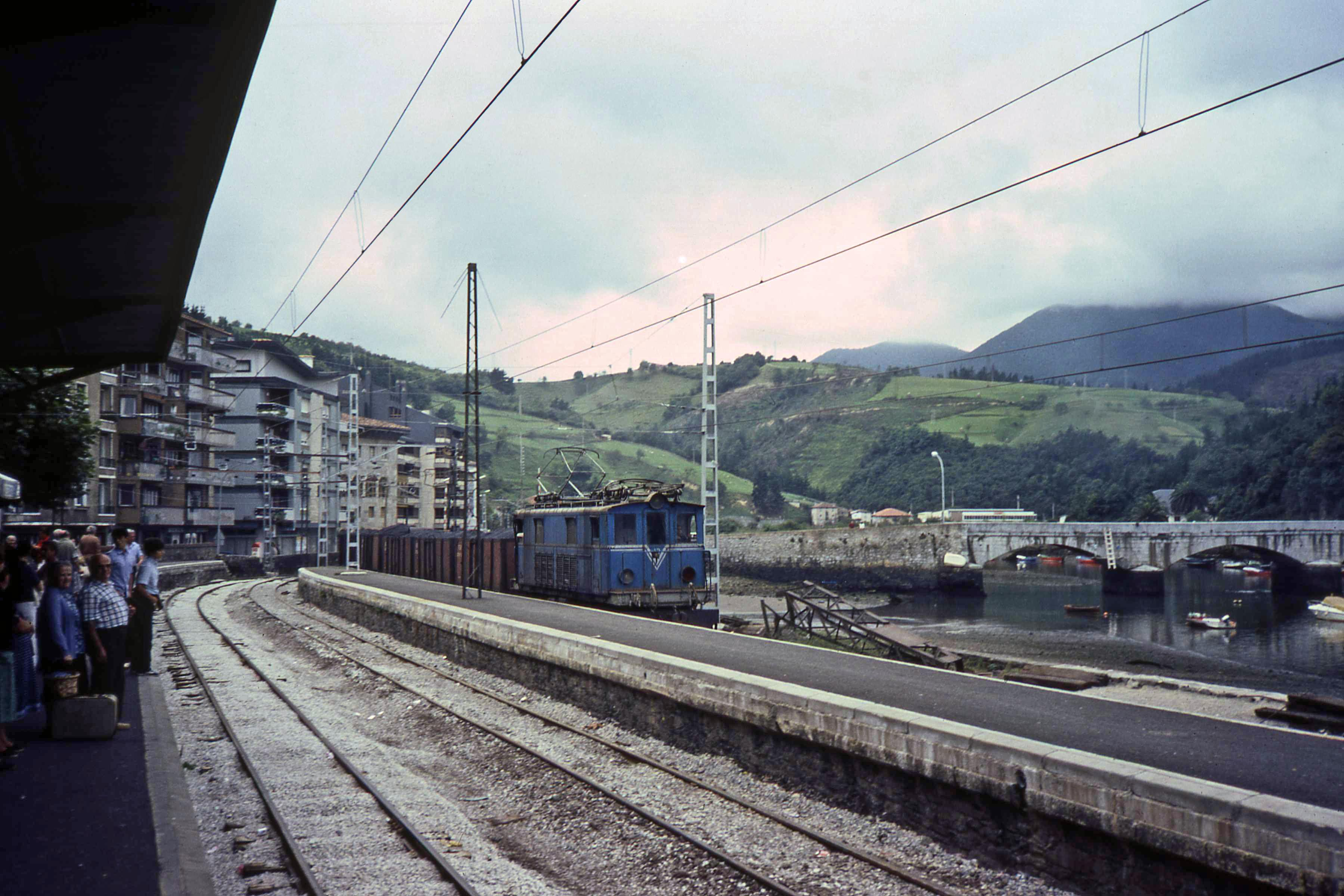 Small track FEVE goods train passing Deba station on the Basque coastline